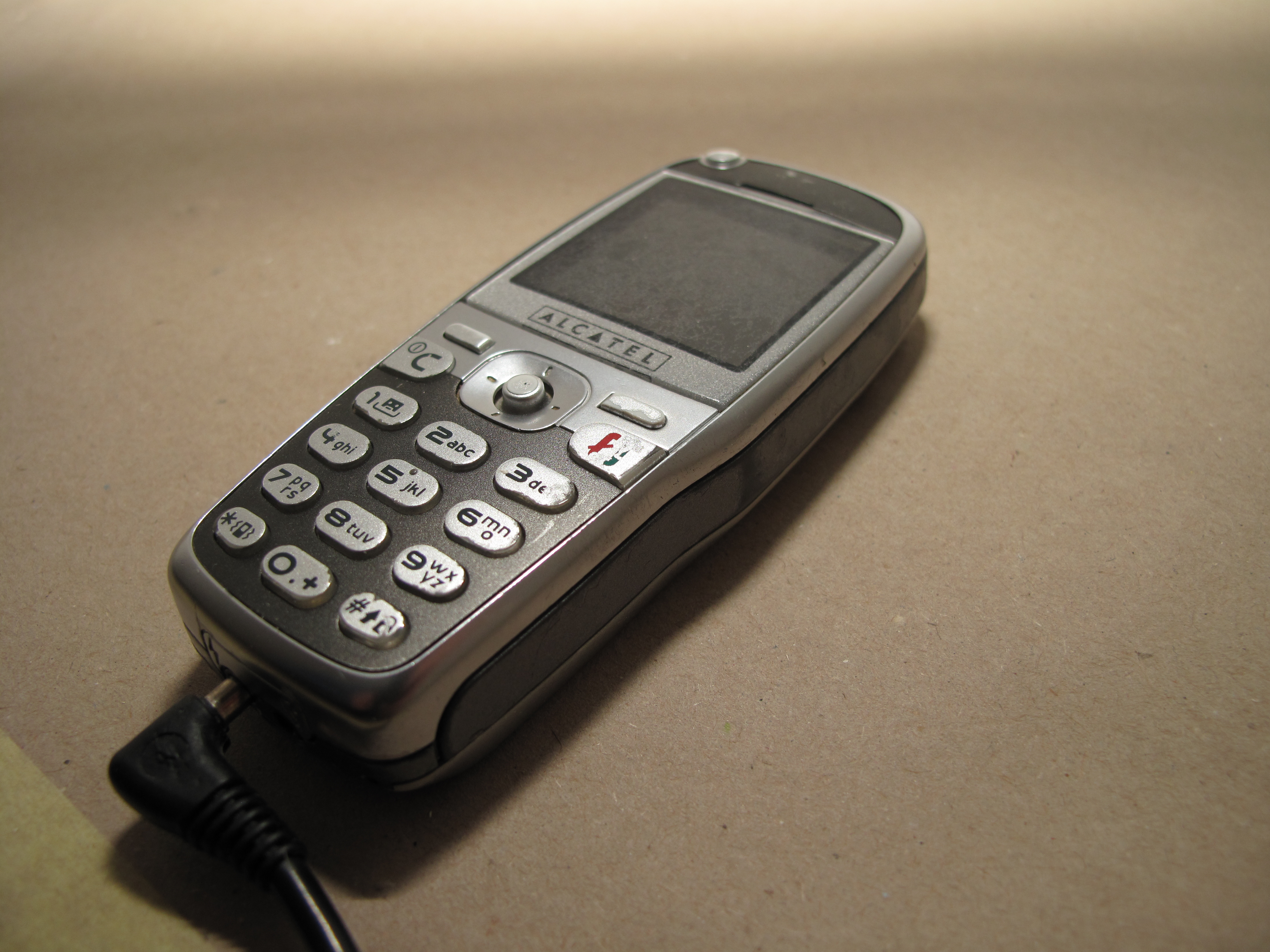 Alcatel One Touch 535 charging.